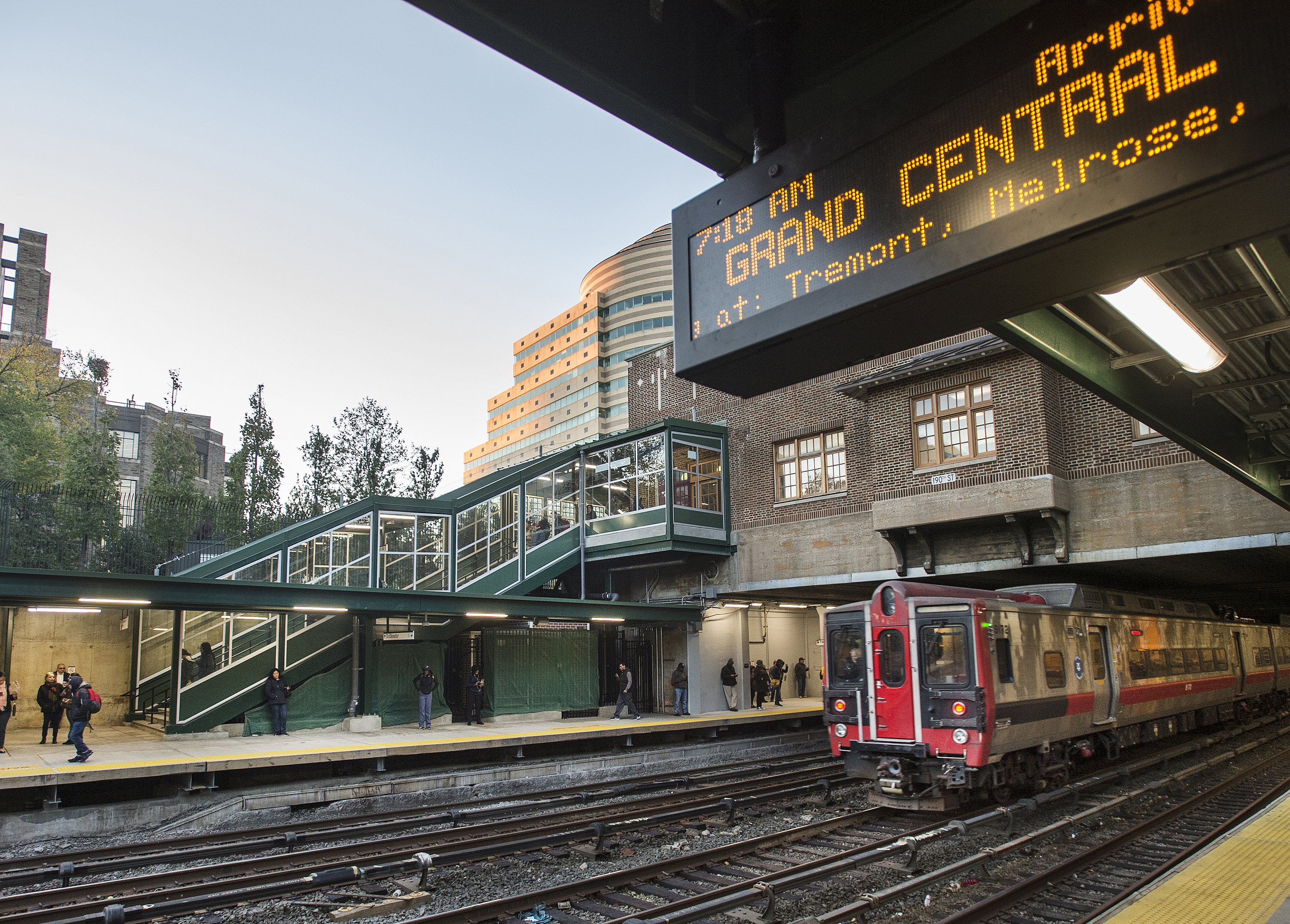 A train of M8 cars passes the recently rebuilt Fordham station in October 2016